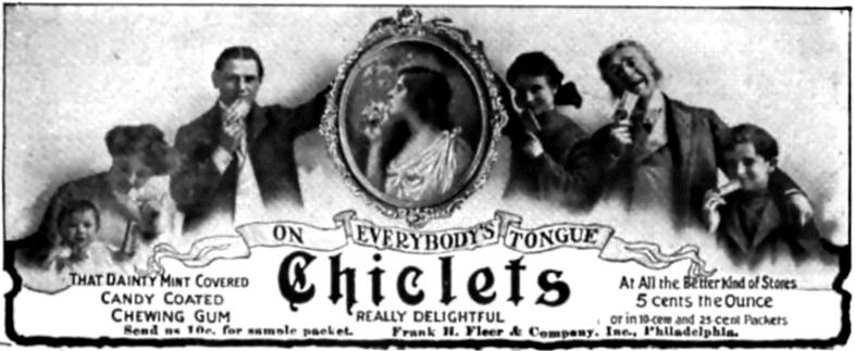 1905 advertisement for Chiclets chewing gum